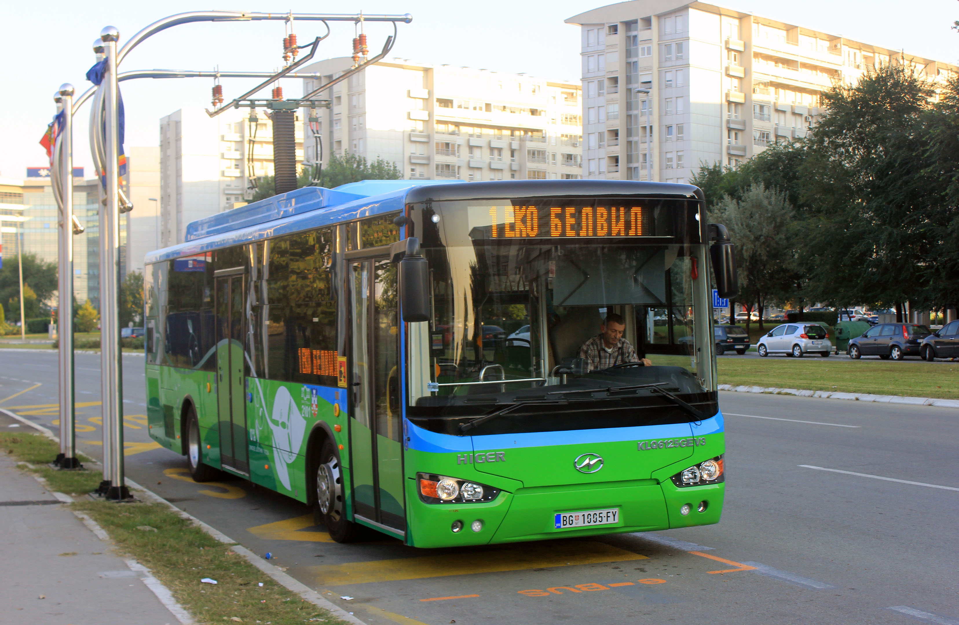 Higer KLQ6125GEV, first battery electric bus of GSP Belgrade public transport company.